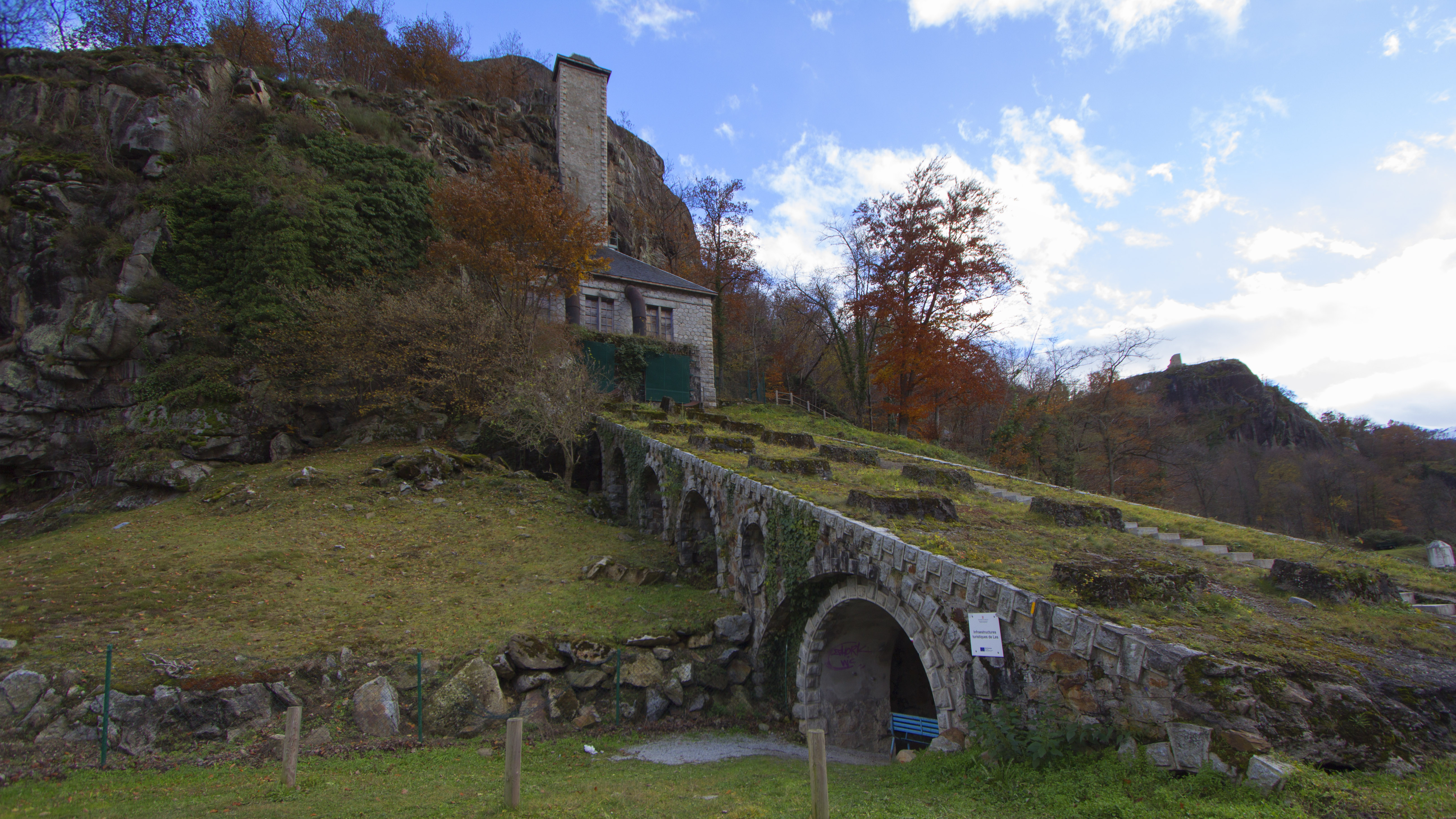 Penstocks support arches at Cledes hydropower plant, Les (Catalonia)